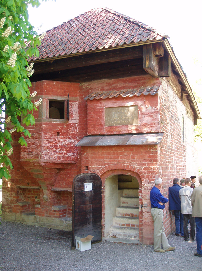 House of Marten Skinnare from south